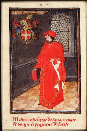 Statuts, Ordonnances et Armorial de l'Ordre de la Toison d'Or (Statutes, Ordonnances and armorial of the Order of the Golden Fleece) Place of origin, date: Southern Netherlands; 1473. Added sections: Southern Netherlands; 1478 or shortly after and 1491 or shortly after Material: Vellum, ff. 86, 249x187 (167x106) mm, 23 lines, littera cursiva (lettre bourguignonne). French. Binding: 18th-century brown leather Decoration: 1 full-page miniature (170x115 mm) with border decoration; 92 miniatures (185/155x120/100 mm); 1 historiated initial (80x90 mm) with border decoration; decorated initials with border decoration (ff., Added section: miniatures ; 4 drawings for miniatures (not finished) Provenance: Presented in 1473 by Gilles Gobet, King of Arms of the Order of the Golden Fleece, to Charles the Bold, Duke of Burgundy and the other Knights during the Chapter of the Order held at Valenciennes; Treasure of the Golden Fleece, Brussls; taken away by the Treasurer C.-F. Humyn (d. 1735) or his daughter C.Ch. de Corte; by legacy to her daughter M.-L. de Corte, wife of Ph.-E. de Poederlé; purchased in 1781 at the Poederlé sale by G.-J- Gérard of Brussels; acquired in 1832 as part of the Gérard collection (no. A 27)